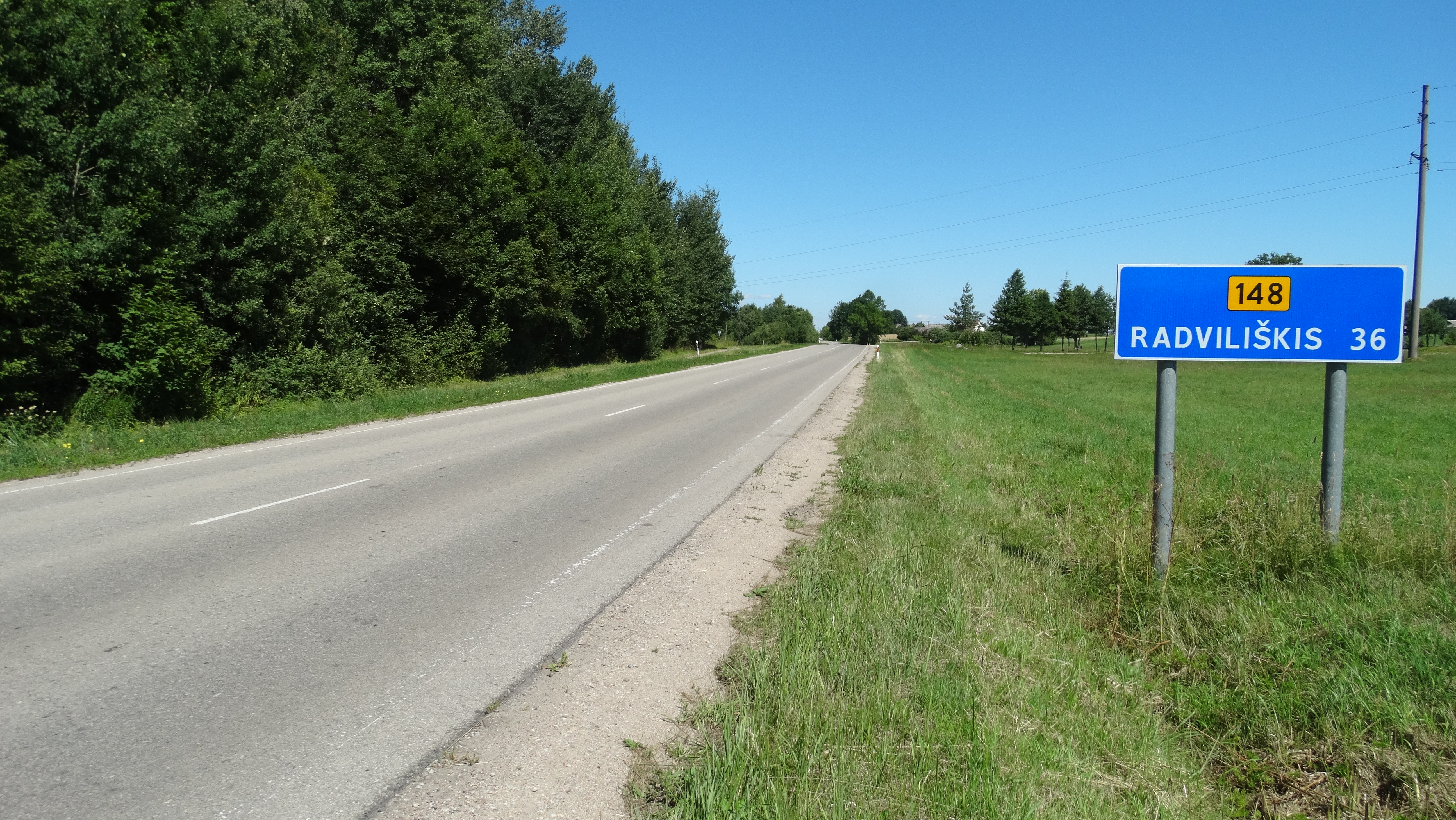 Regional road 148 by Tytuvėnai, Kelmė district, Lithuania